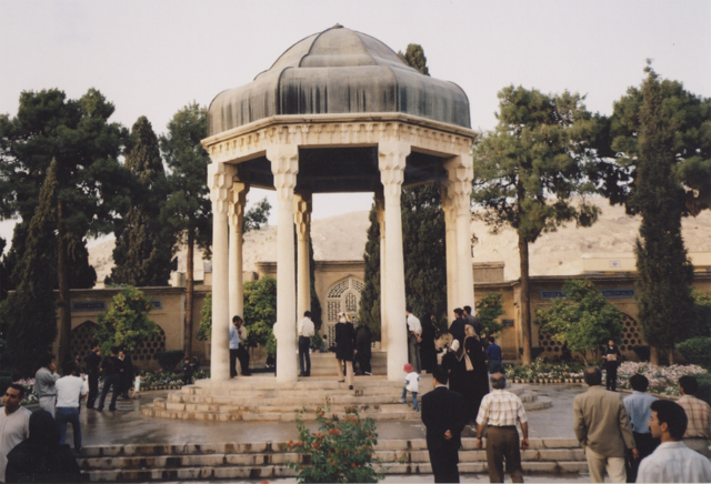 Shirāz is Iran's city of poets, as some of Persian poetry's giants are buried here.